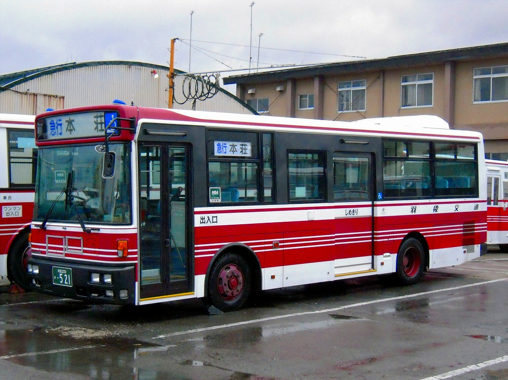 Ugo kotsu Nissan Diesel Space Runner RM(PB-RM360GAN)